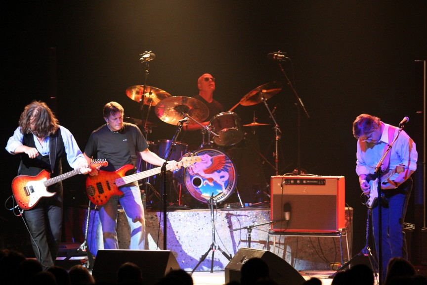 Fly Like An Eagle